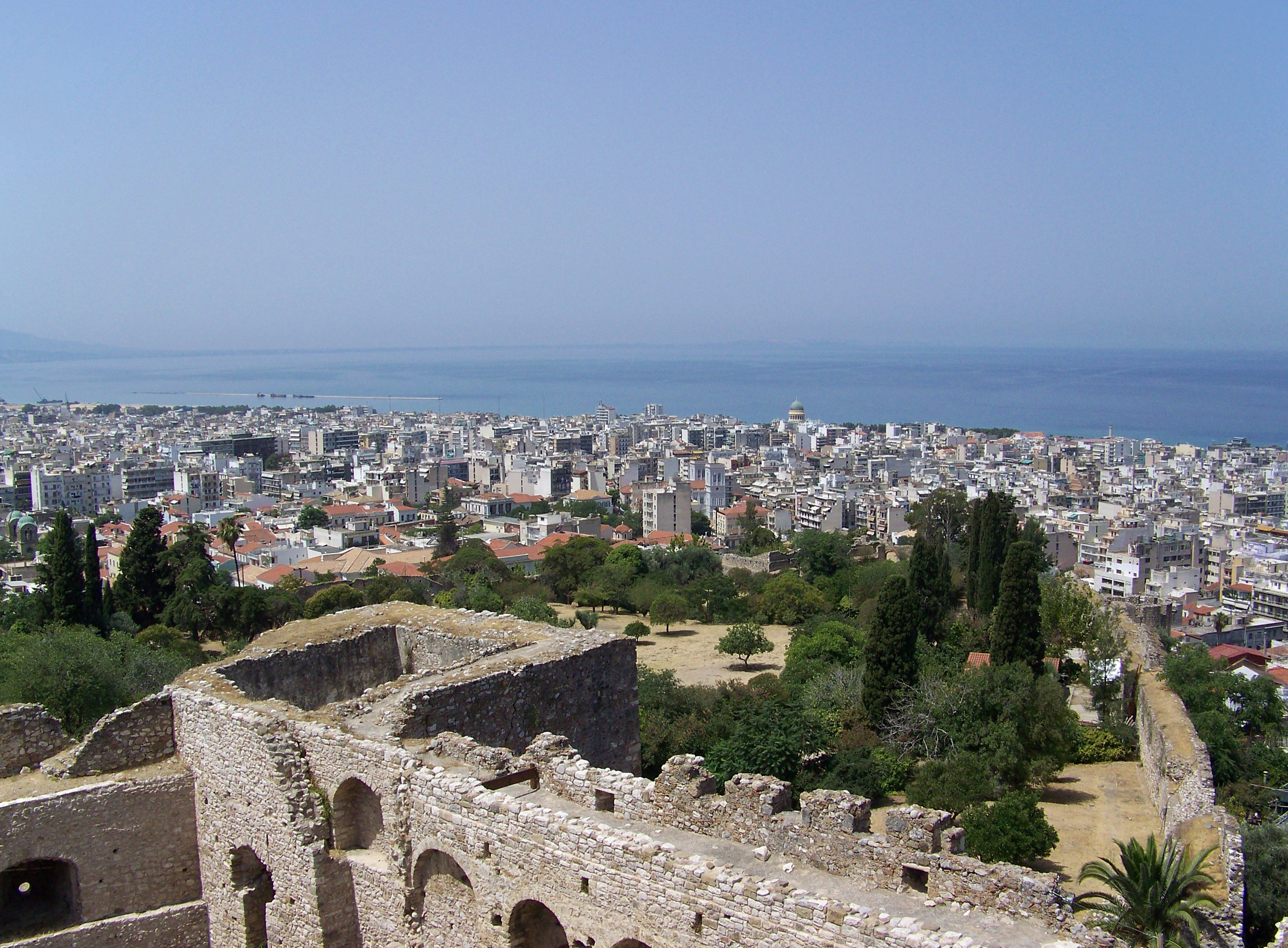 View of Patras from its fortress (the dome of the cathedral Agios Andreas can be seen near the coastline). Achaea, Greece.